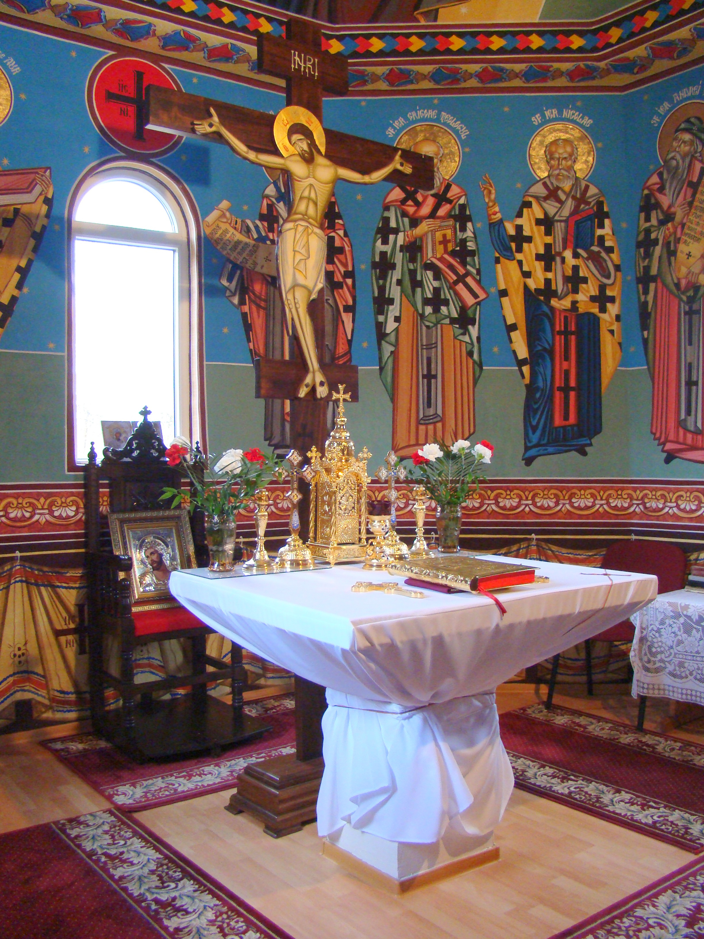 Wooden church in Nețeni, Bistrița-Năsăud county, Romania